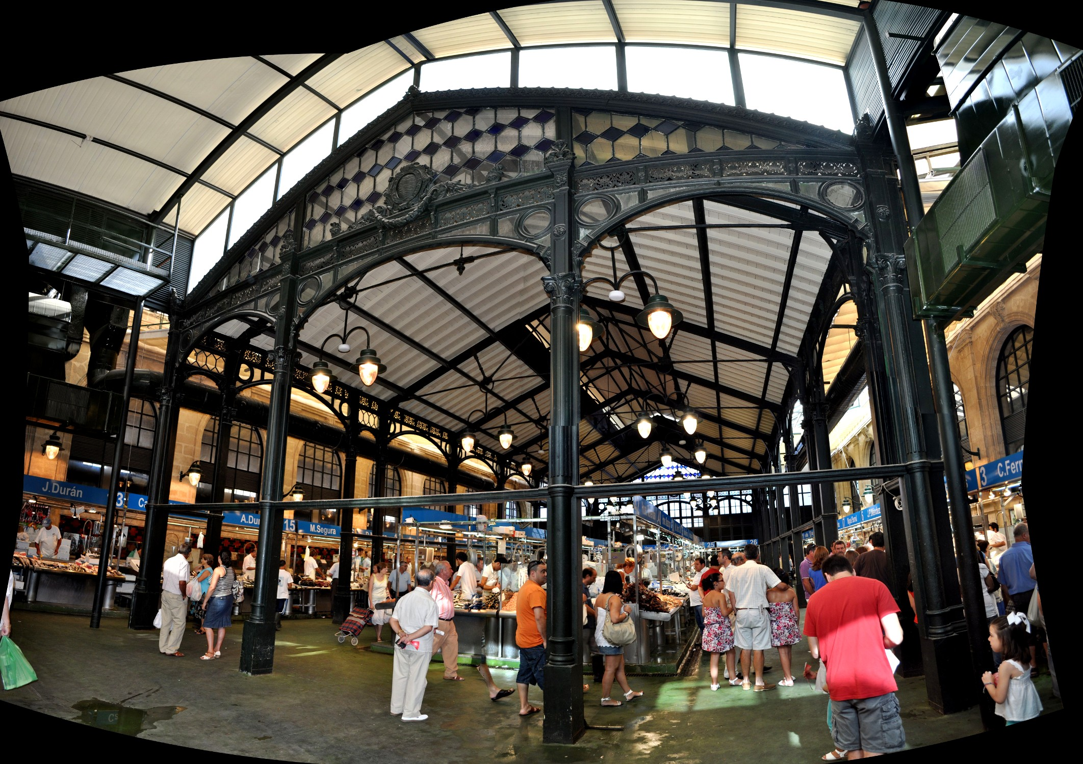 Central Market, Panorama Fish Area, Jerez